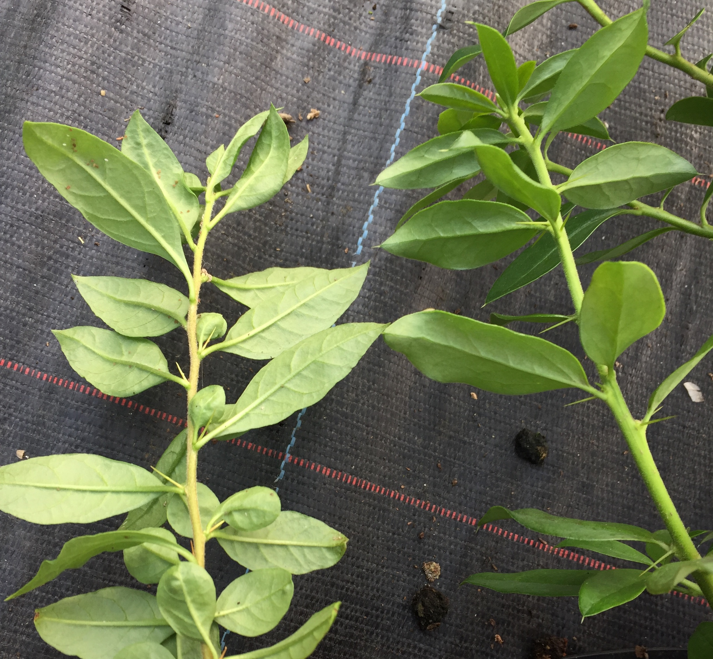 Comparison of young, leafy, non-flowering shoots of, on the left, Latua pubiflora (Griseb.) Baillon ( family Solanaceae ) and, on the right, Dasyphyllum diacanthoides (D.Don) Cabrera ( family Asteraceae ), juxtaposed to reveal the ease of a potentially dangerous confusion of these two native Chilean medicinal plants, which has frequently resulted in accidental poisonings by Latua of blunt trauma victims who mistook it for Dasyphyllum diacanthoides (which they were seeking as a remedy for their condition).